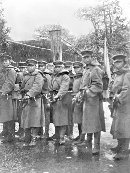 Soldiers occupying Nagata-cho and Akasaka area during the February 26 Incident (二・二六事件).